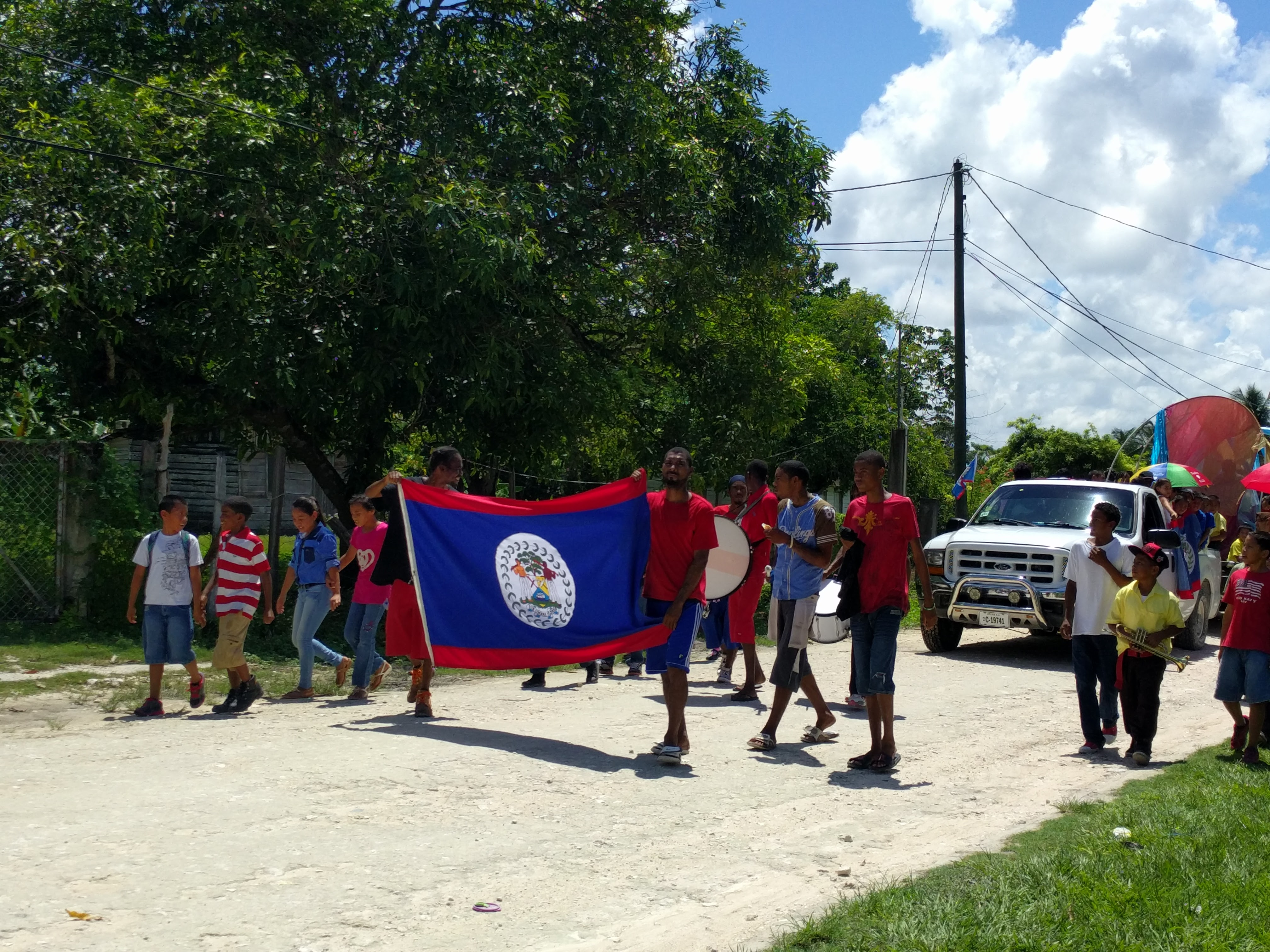 Independence Day parade along Church St. in Carmelita. Photo: @j10lam